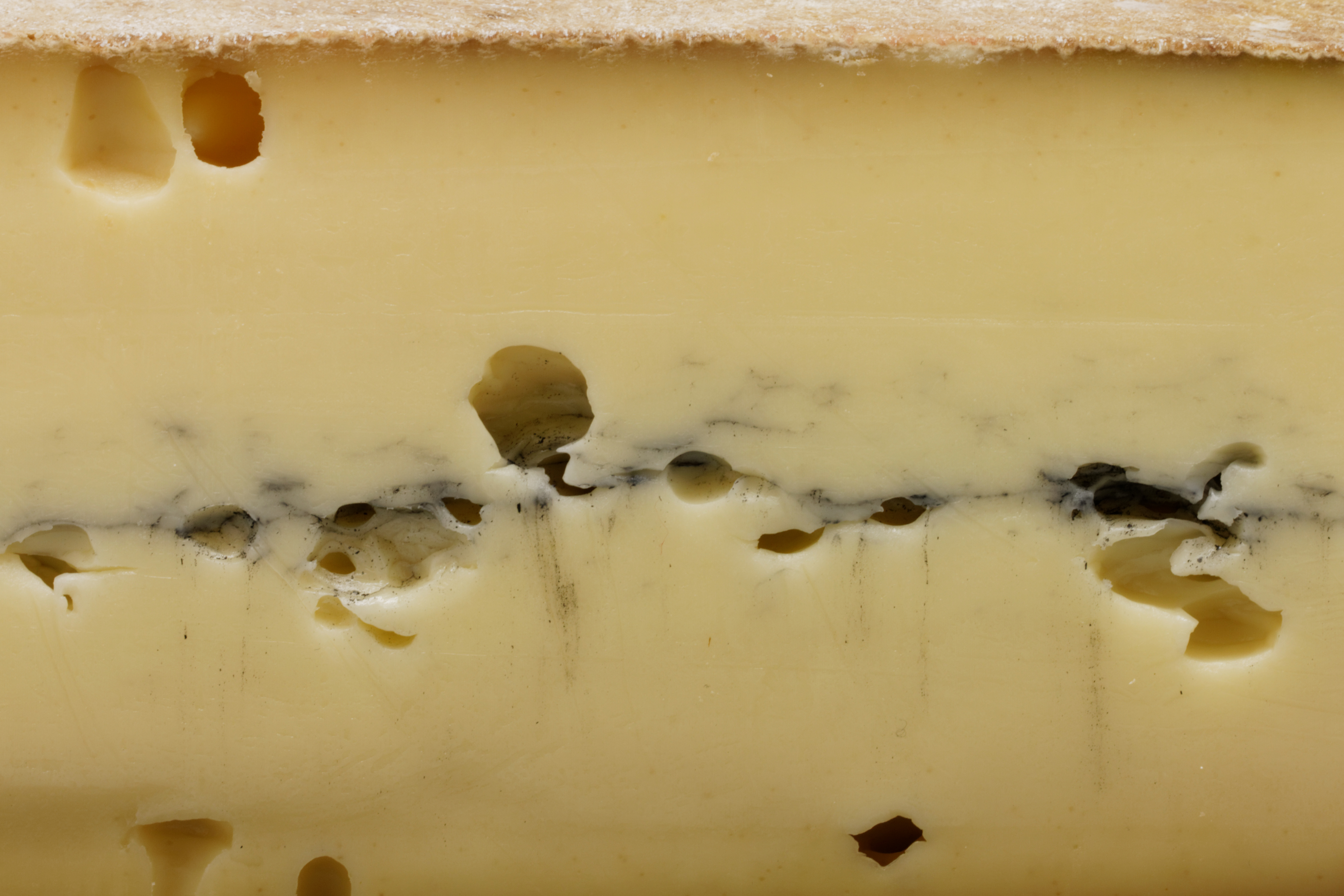 Morbier